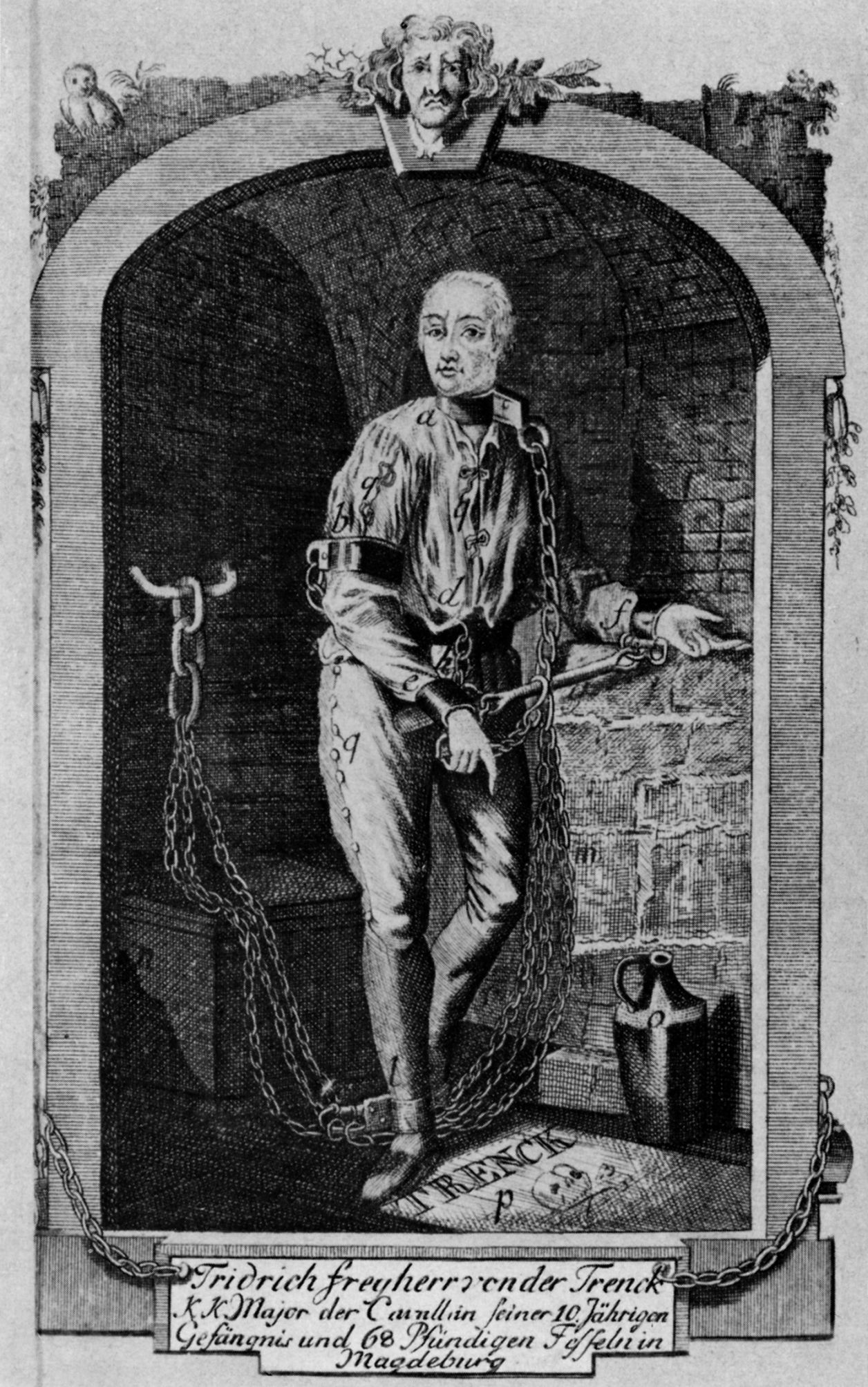 Freiherr Friedrich von der Trenck 1726-1794 prussian Officer, (Nephew of the Austrian Baron Franz von der Trenck 1711-1749)